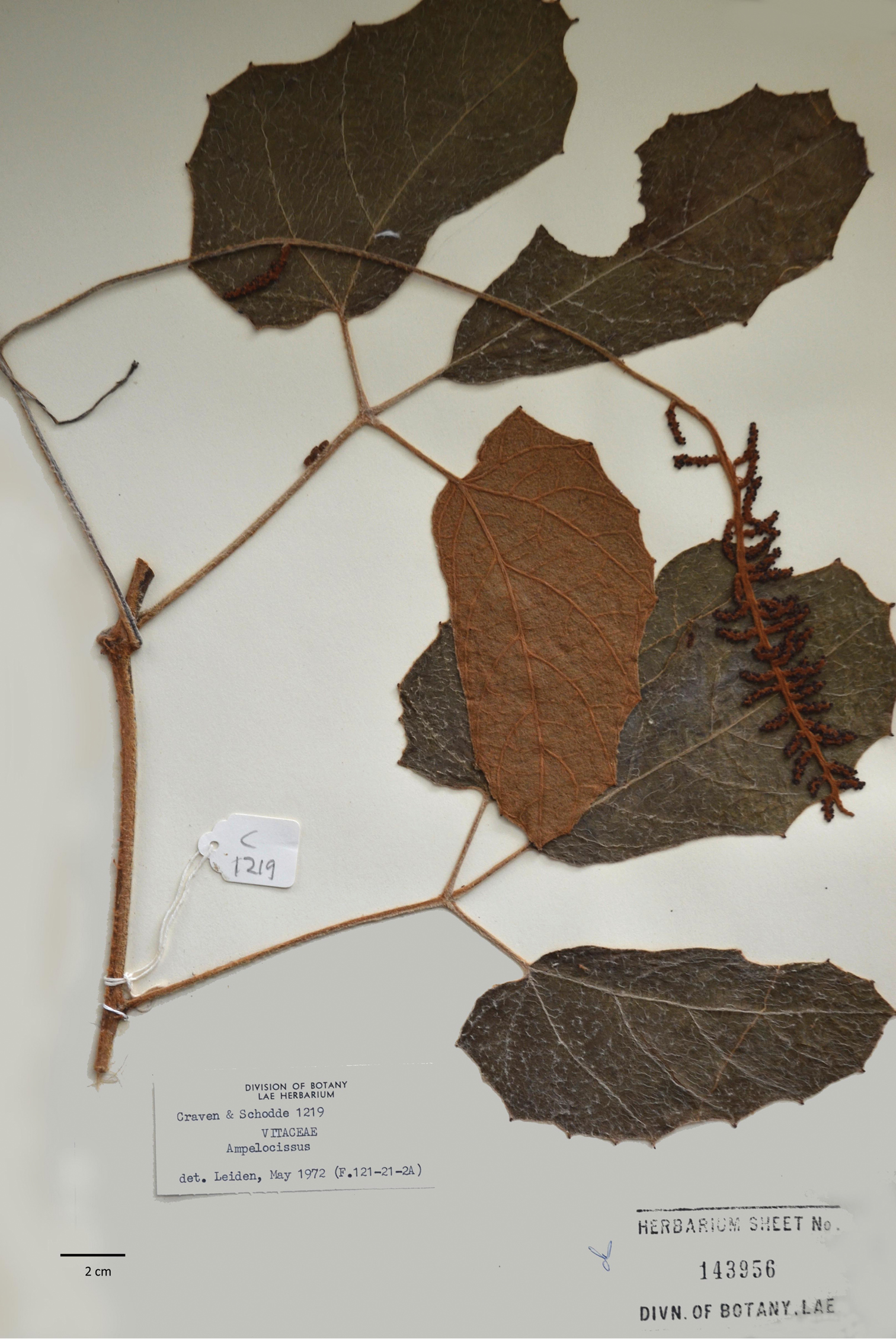 Ampelocissus asekii holotype